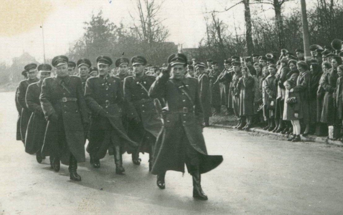 72 Mechanized Regiment marching on the streets of Gubin